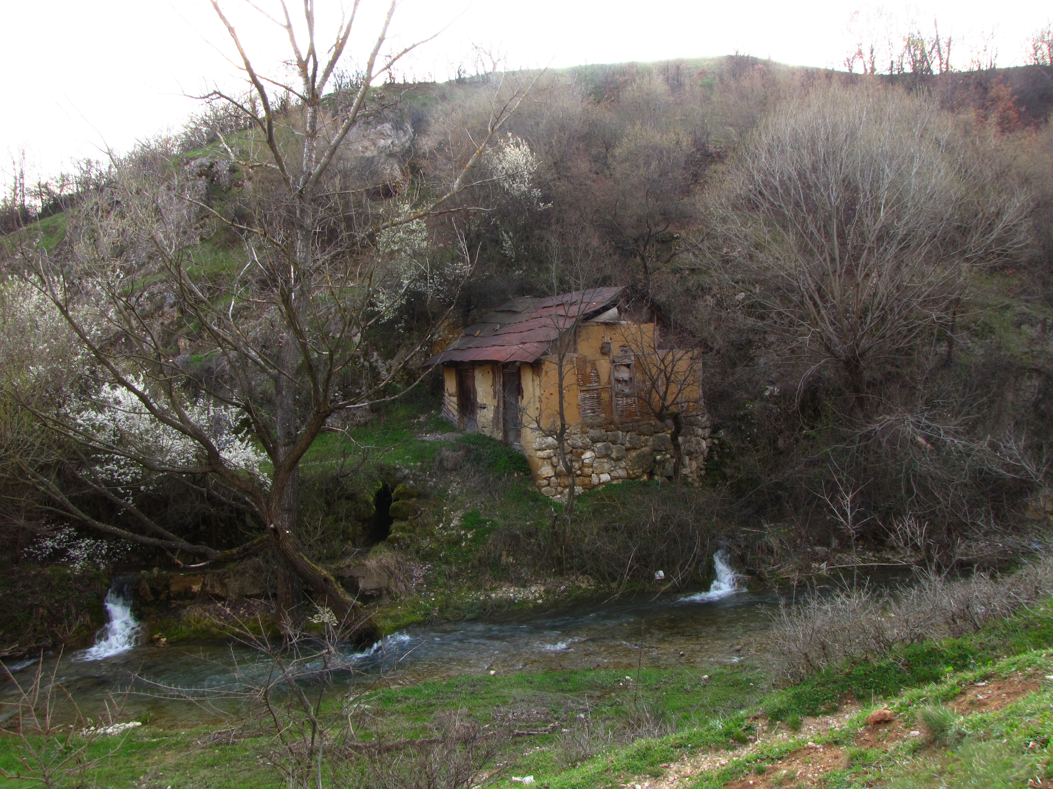 Watermill in village Gradašnica